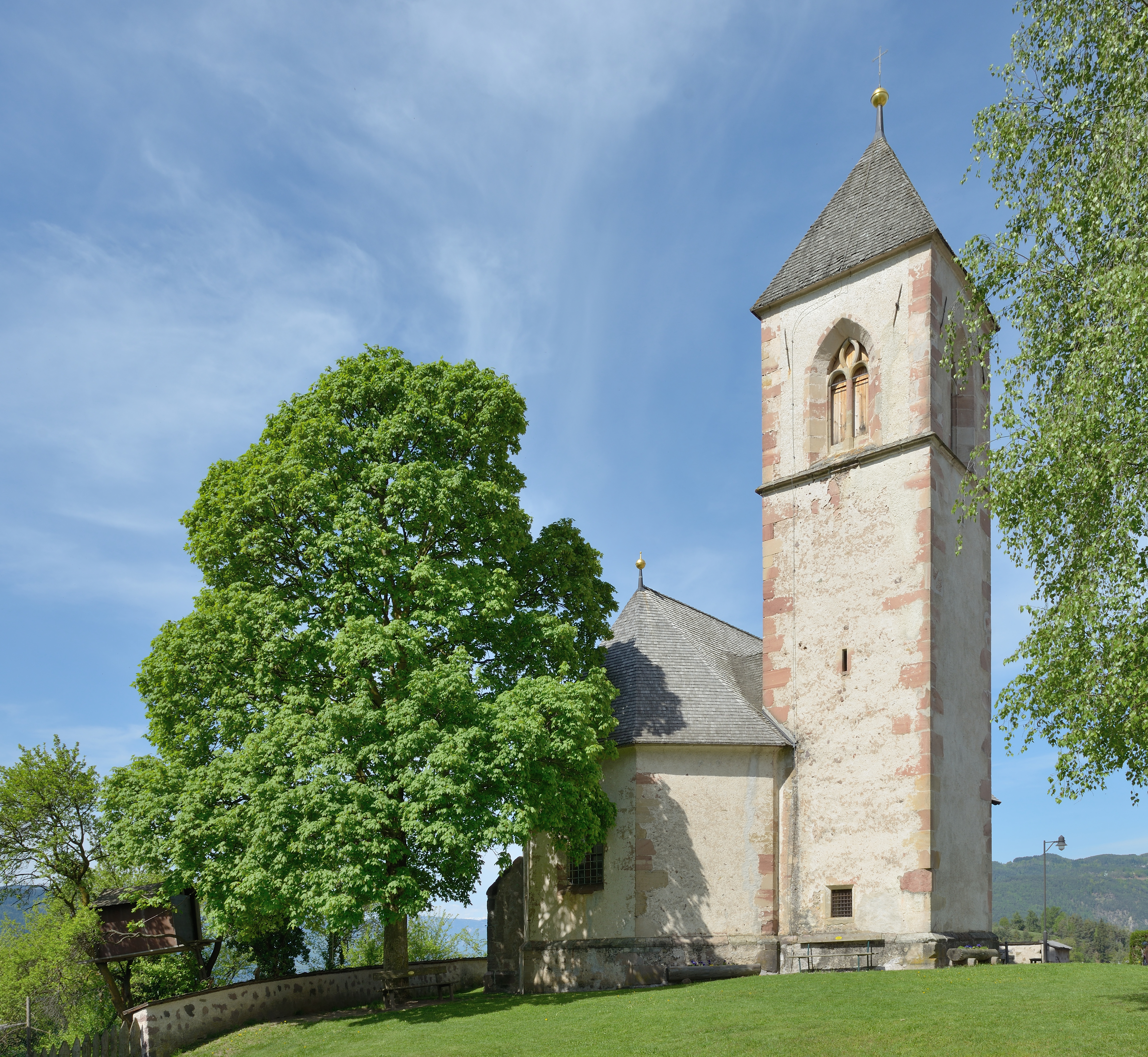 St. Margareth in Obervöls in Völs am Schlern